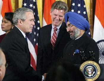 U.S. President Bush shakes hands with Ambassador Raminder Jassal of India after the signing of the United States-India Peaceful Atomic Energy Cooperation Act in the East Room of the White House, Dec. 18, 2006.